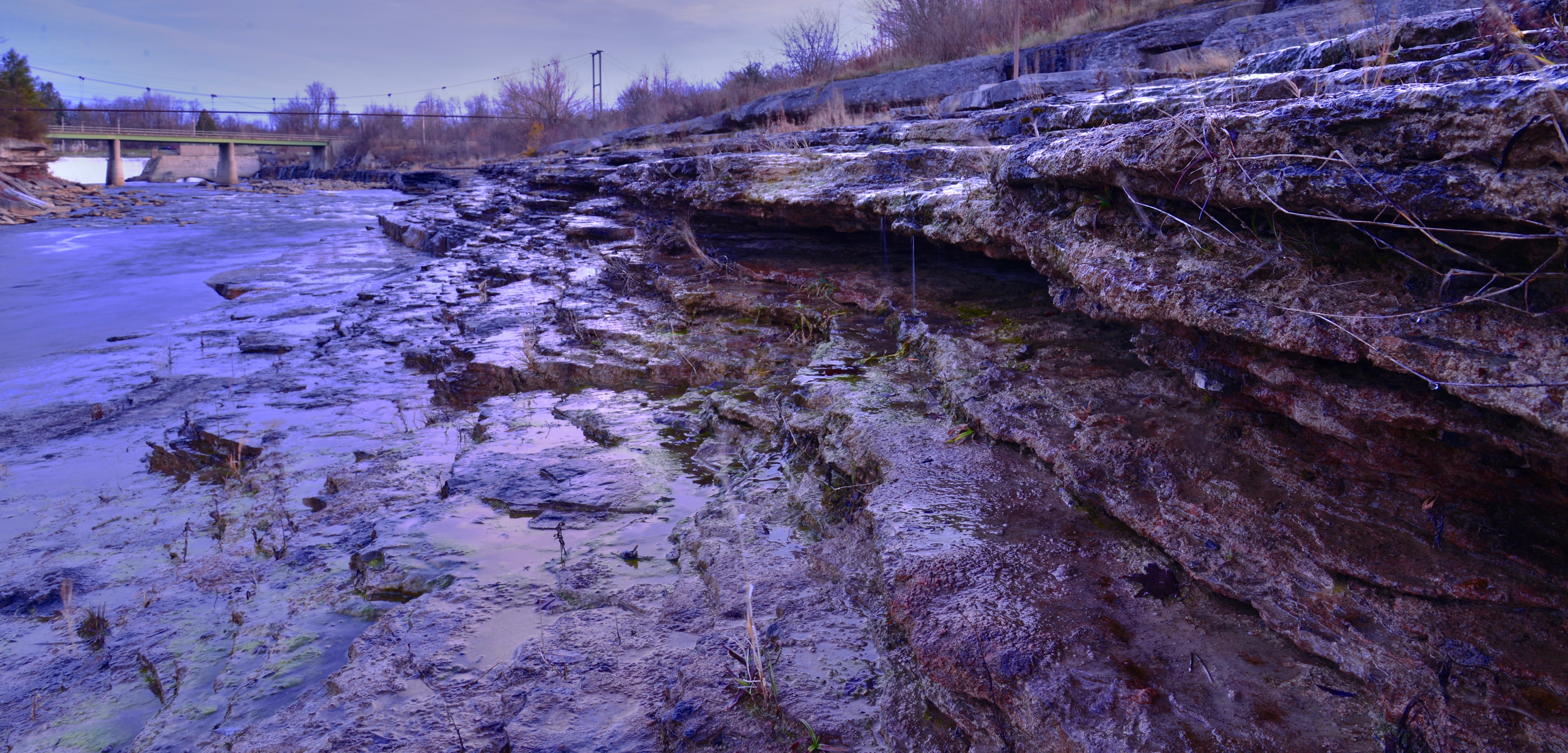 The banks of the Black River, in Jefferson CO, NY, looking North at the bridge over NY Rte 3 in the Town of Black River